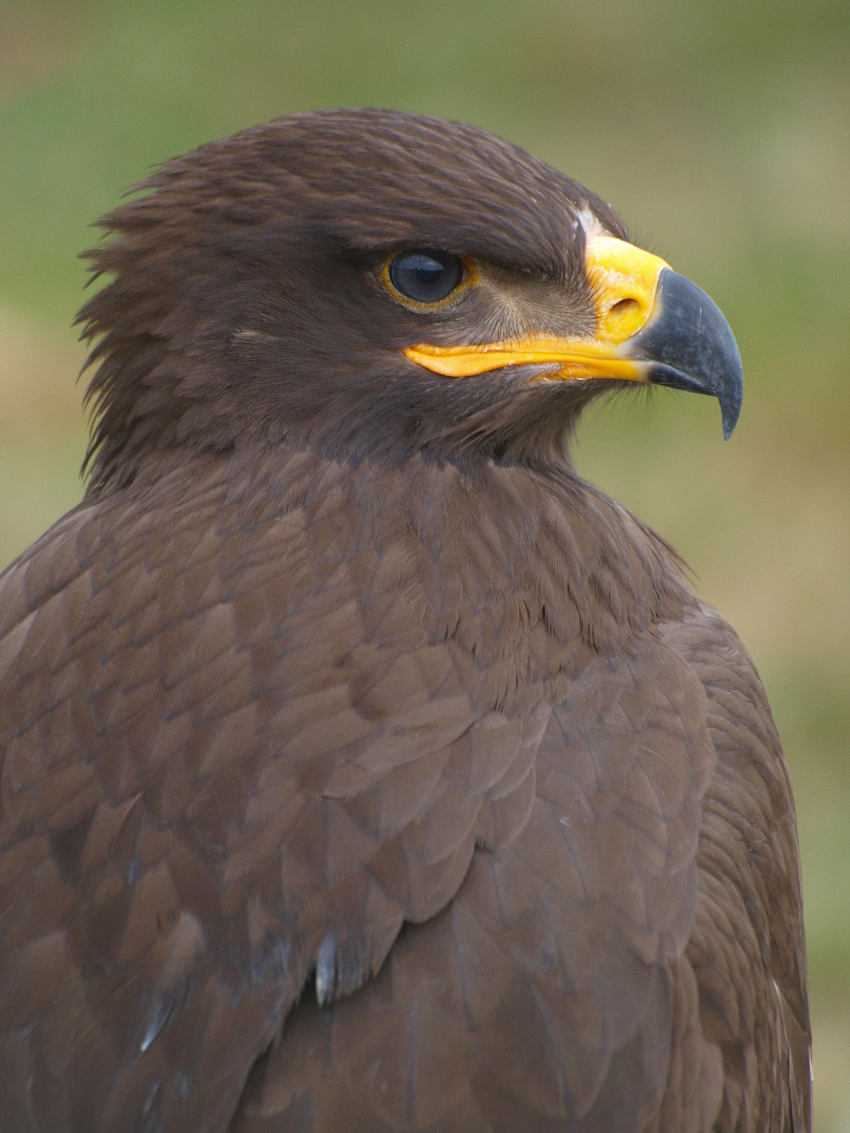 Steppe Eagle Aquila nipalensis